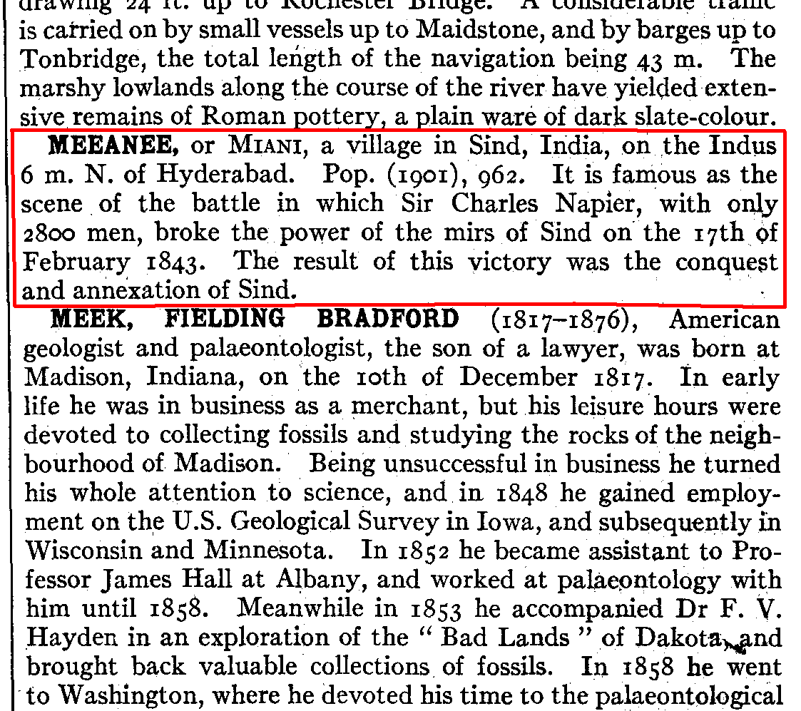 Stub article in Encyclopedia Britannica